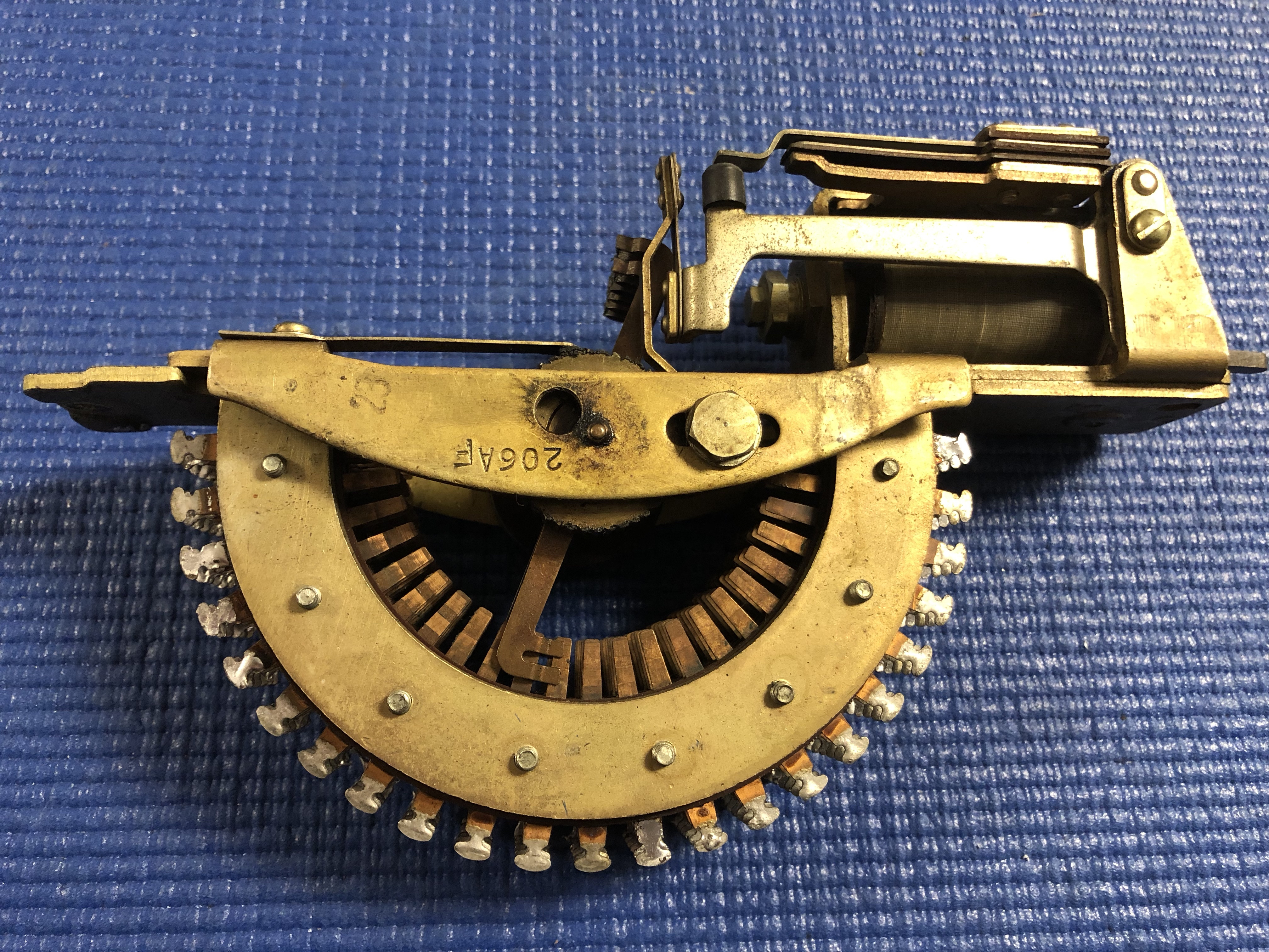 WE 206A stepping switch, a device used in telephone switching equipment, with 6 layers and 25 positions. On display at the Telephone Museum, Waltham, Massachusetts, USA